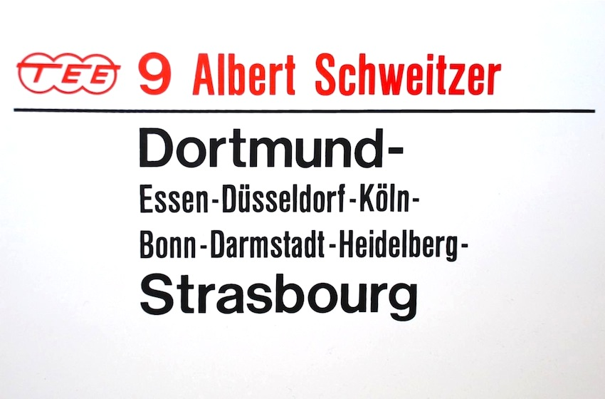 Route placard for the TEE Albert Schweitzer, southbound direction. This TEE train operated only from 1980 to 1983. This type of plastic card, measuring 21cm x 30cm, was displayed inside each car of the train, in frames at both ends of the car. Similar, but larger, route cards were displayed on the outside of each car. (The photographer obtained the route card from the DB offices in summer 1983, through a written request.)